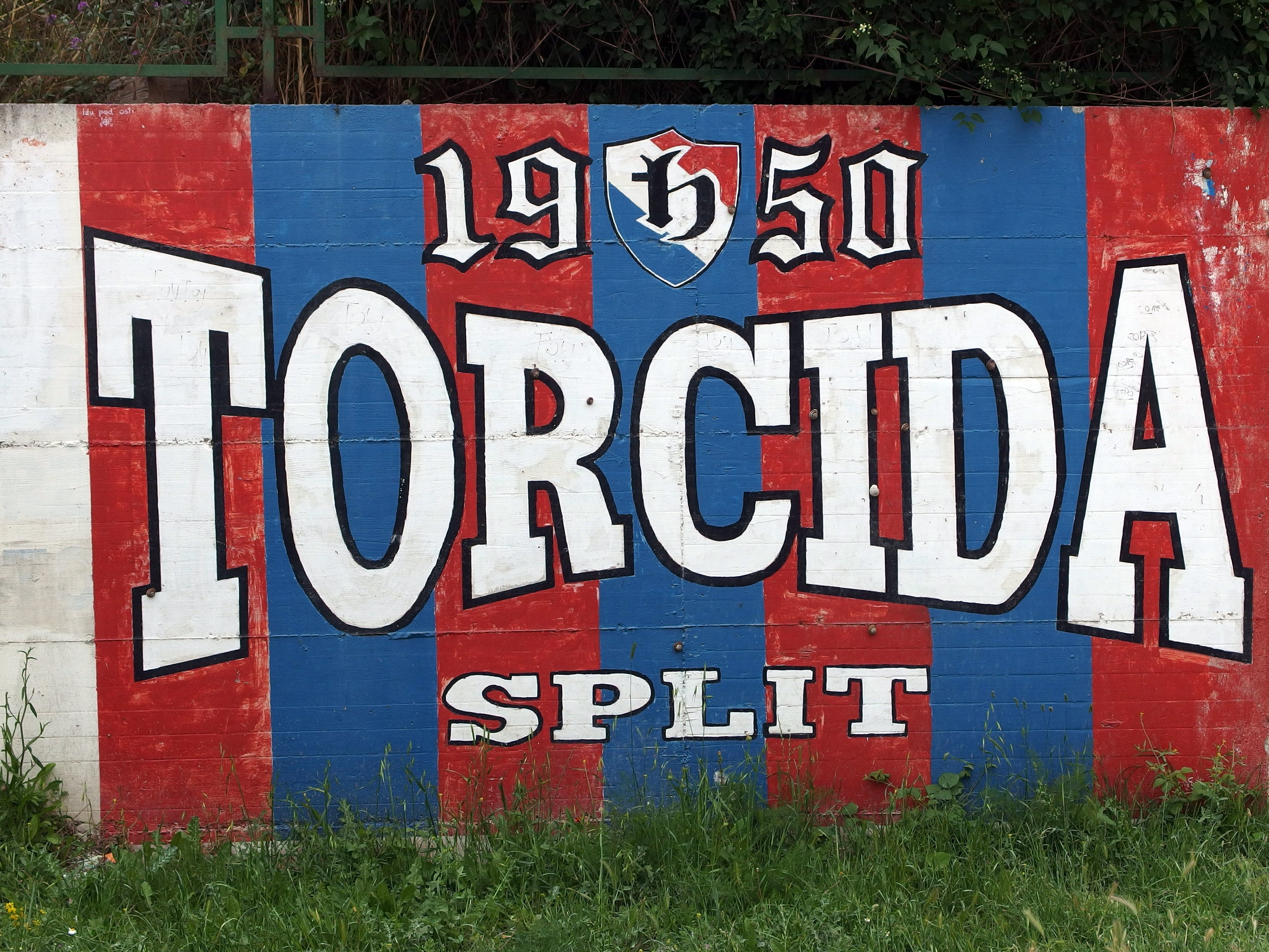 2013-06-02 in Split.